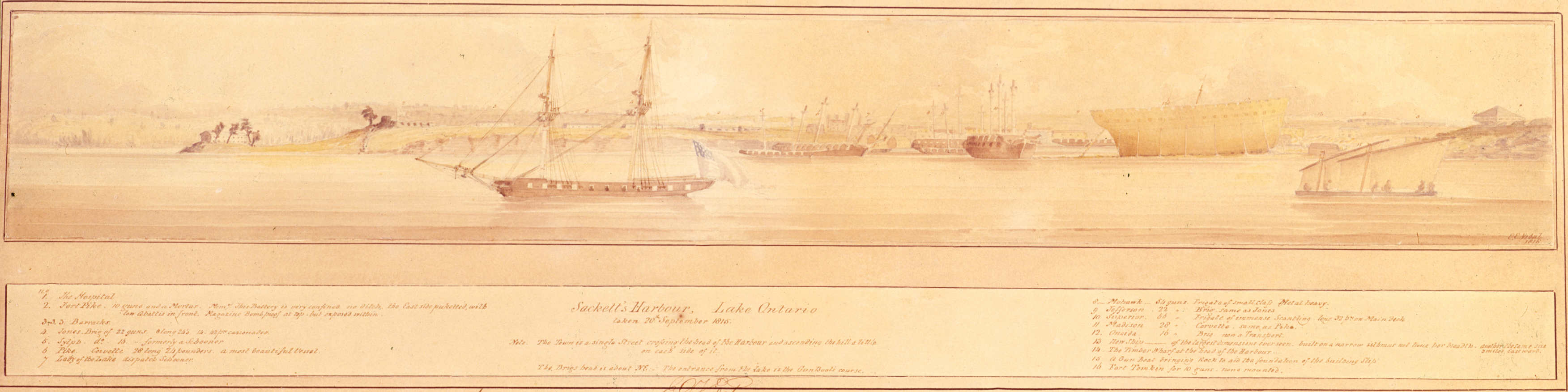 Sackets Harbor, NY was the American dockyard wherein naval vessels were constructed during the War of 1812 for service on the Great Lakes. This view was sketched by the English watercolourist E.E. Vidal probably for military intelligence purposes while the details of the peace were still being negotiated.